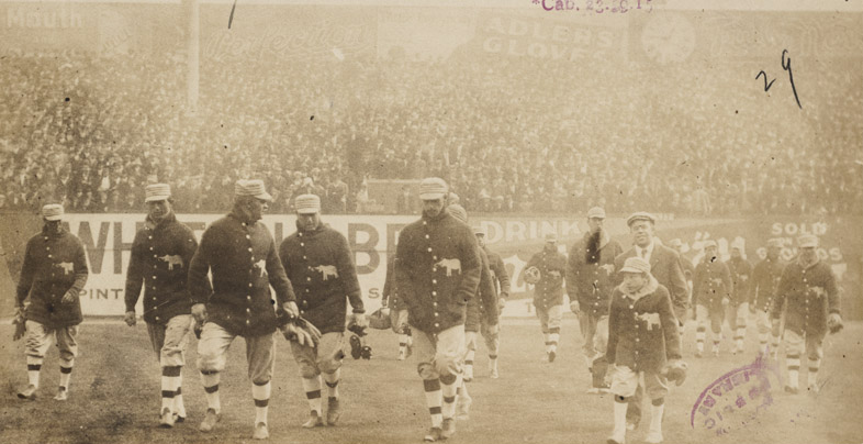 Accession No.: 06_06_000017 Title: Philadelphia Athletics on field at Shibe Park, 1911 World Series Caption: Philadelphia's World Series 1911 Creator: Luke, T.A. Date: 1911 Format: photograph Description: Athletics third baseman Frank Baker is second from left. Baker hit two home runs in the series as the Athletics beat the New York Giants, earning him the nickname, Home Run Baker. Luke was a photographer for the Boston Post. BPL Collection: McGreevey Collection BPL Department: Print Subject: Baseball--History World Series (Baseball) (1911) Philadelphia Athletics (Baseball team) New York Giants (Baseball team) Baseball players--1910-1920 Sports spectators